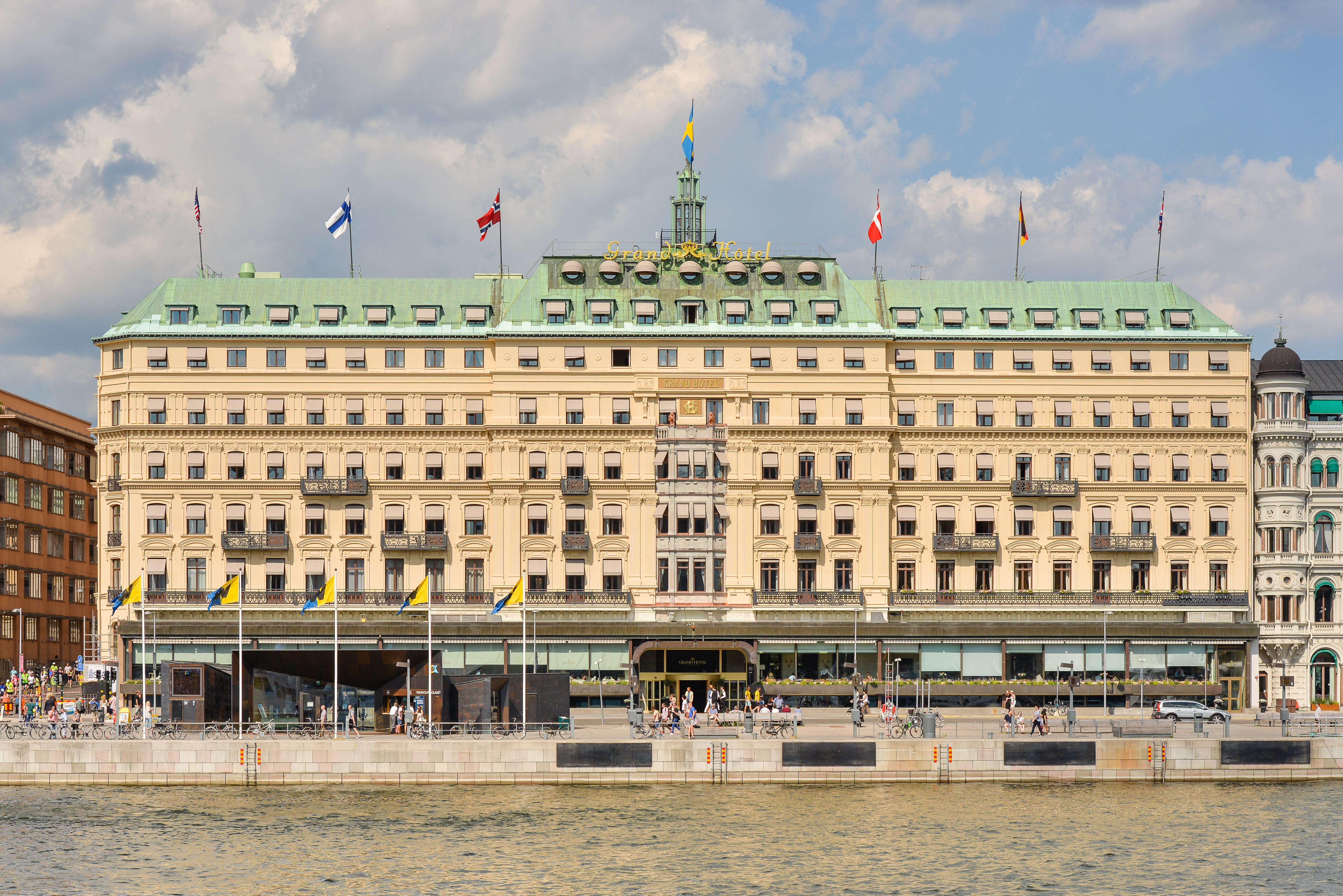 Grand Hôtel, Stockholm. The facade was renovated and remodeled 2017-2018.